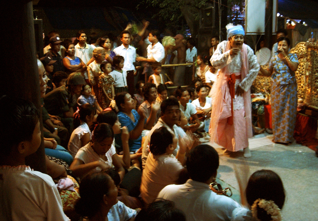 in the evening the atmosphere in the nat festival turns even jollier, with the crowd jumping around. according to animistic belief the singer is possessed by one of the 37 nats. i wrote about the festival in the dutch newspaper ad. (Nat pwe in Amarapura)